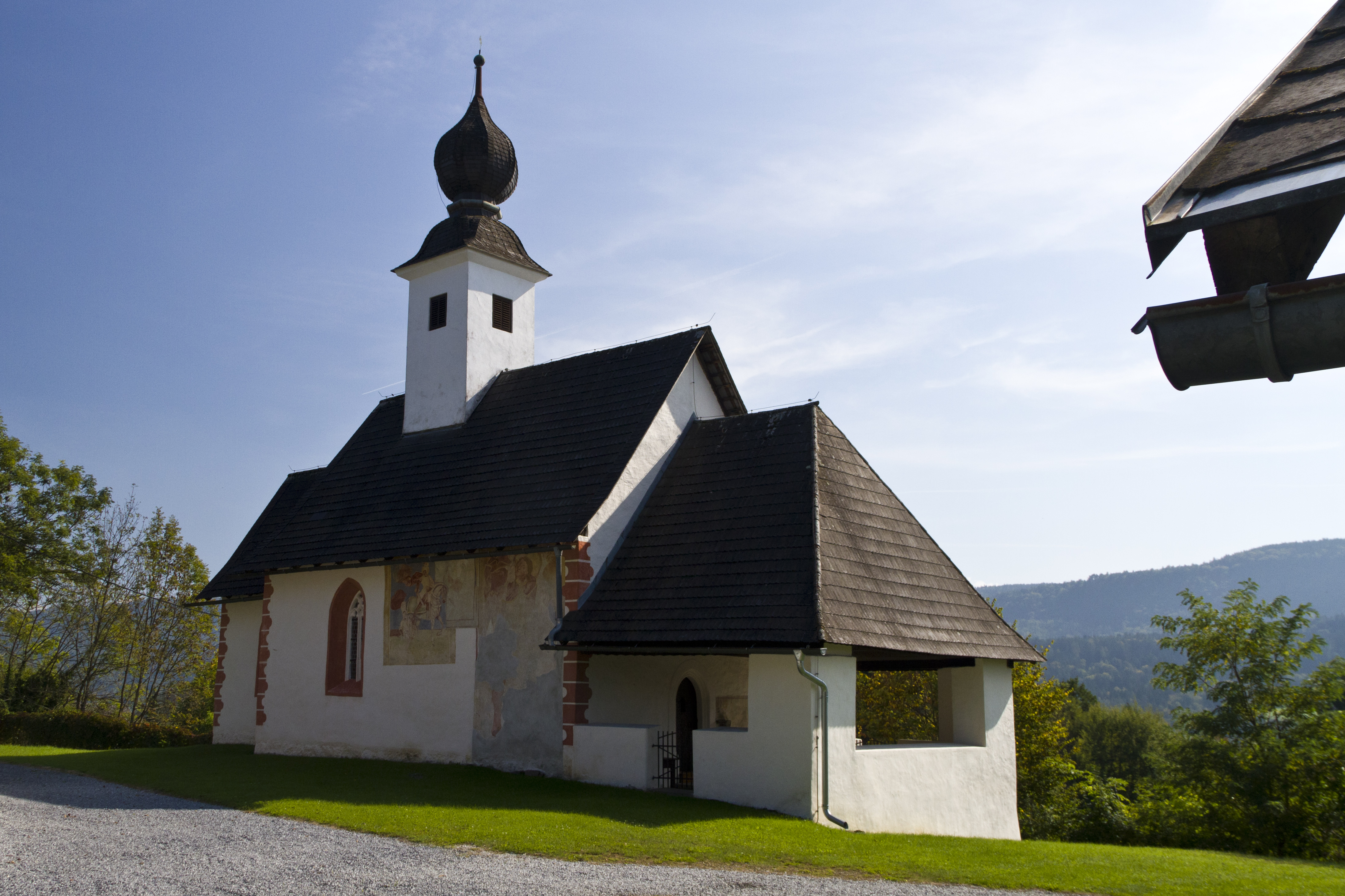 Roman Catholic Church Saint Ulrich and St. Martin with Fresco on the northern wall